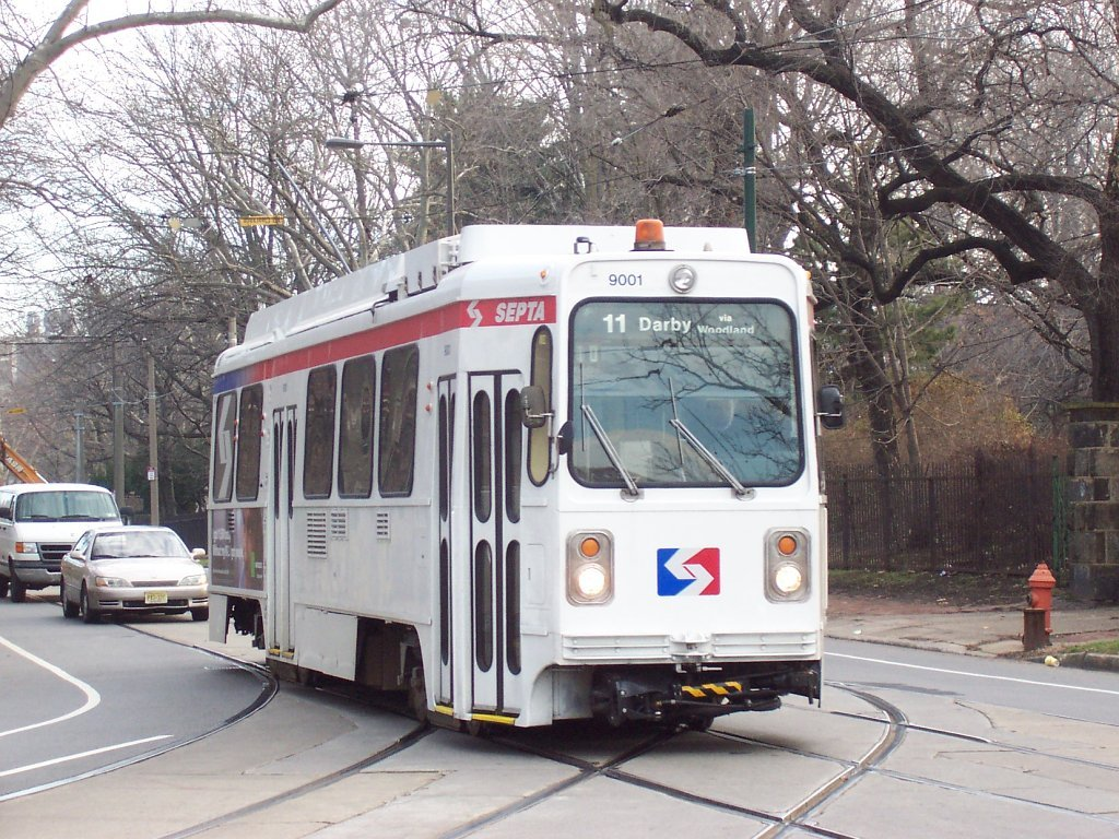 SEPTA Kawasaki K-Car LRV 9001 bound for Darby, on the #11 line.